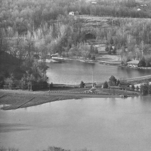 An aerial shot of Burdette Park during the Ohio River Flood of 1937.